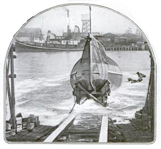 the launching of the US Navy's submarine S-34 circa 1919